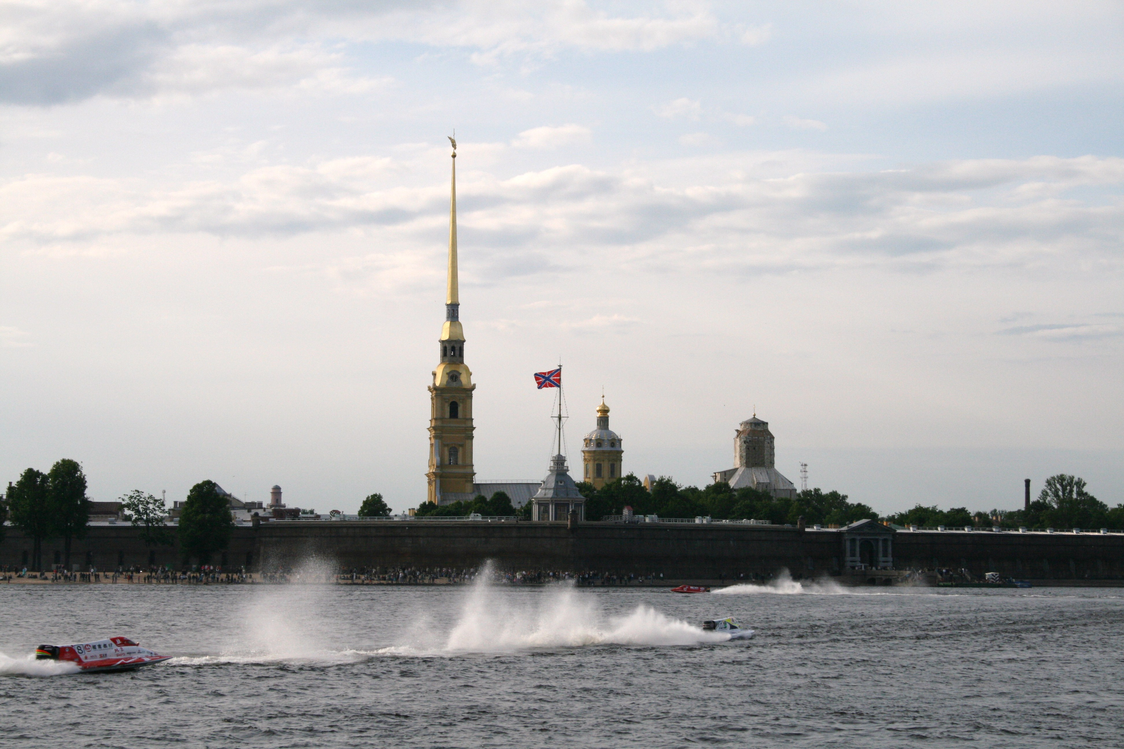 F1 Powerboat Racing in St. Petersburg, June 14, 2008